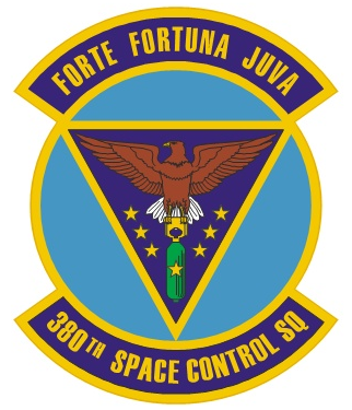 380th Space Control Squadron